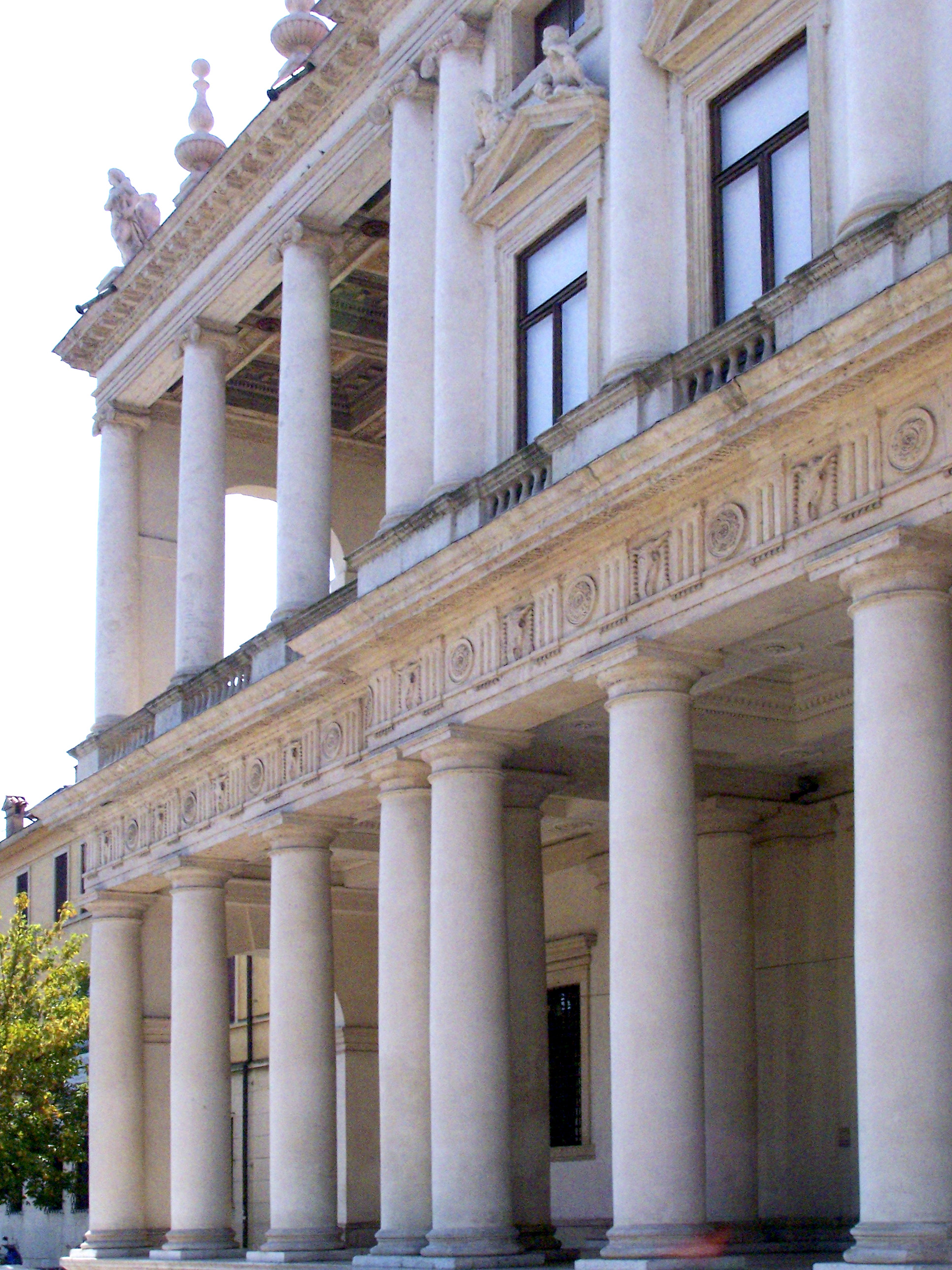 Exterior view of Palazzo Chiericati in Vicenza, Italy